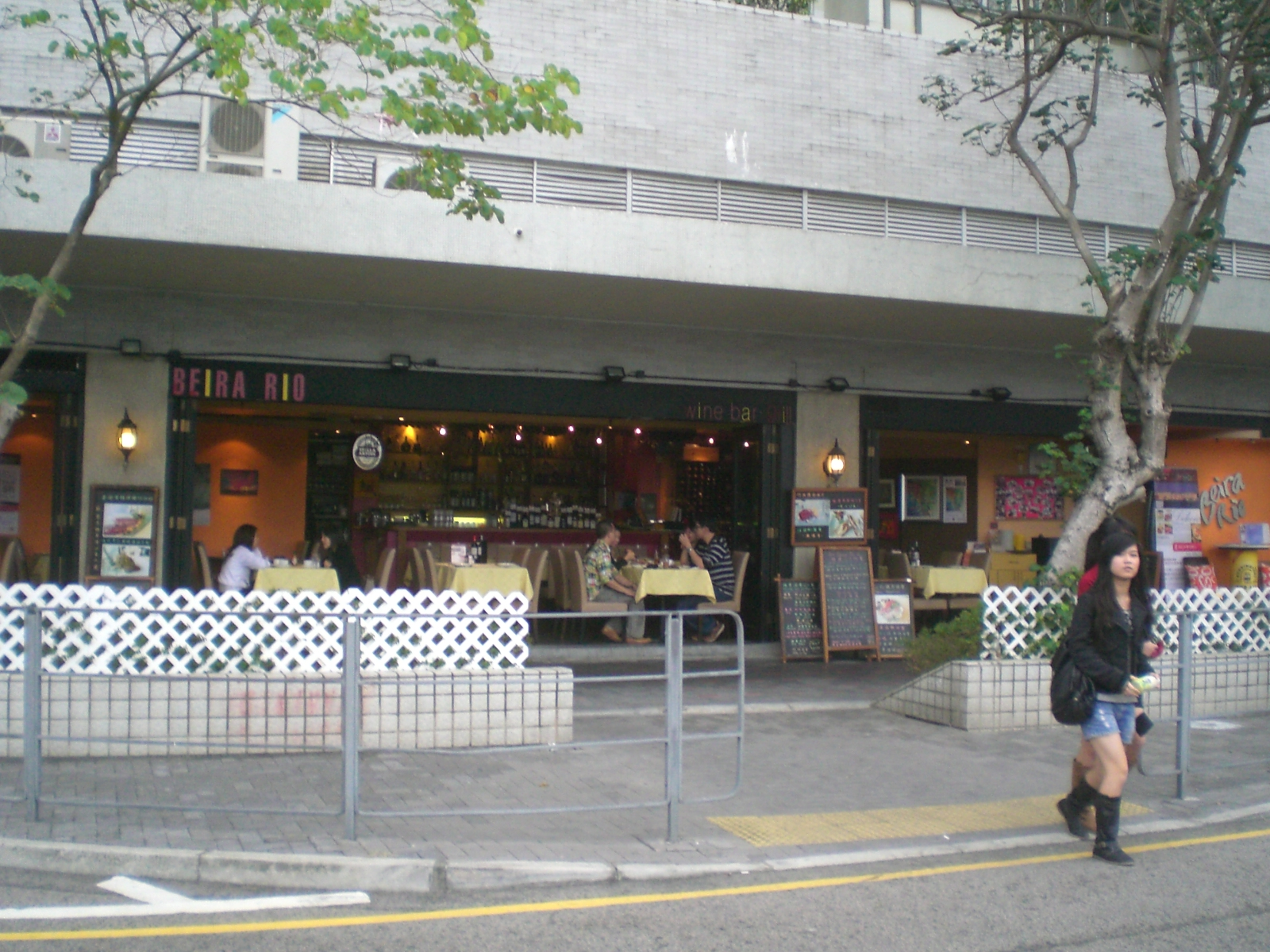 香港東區 太康街 蘇豪東